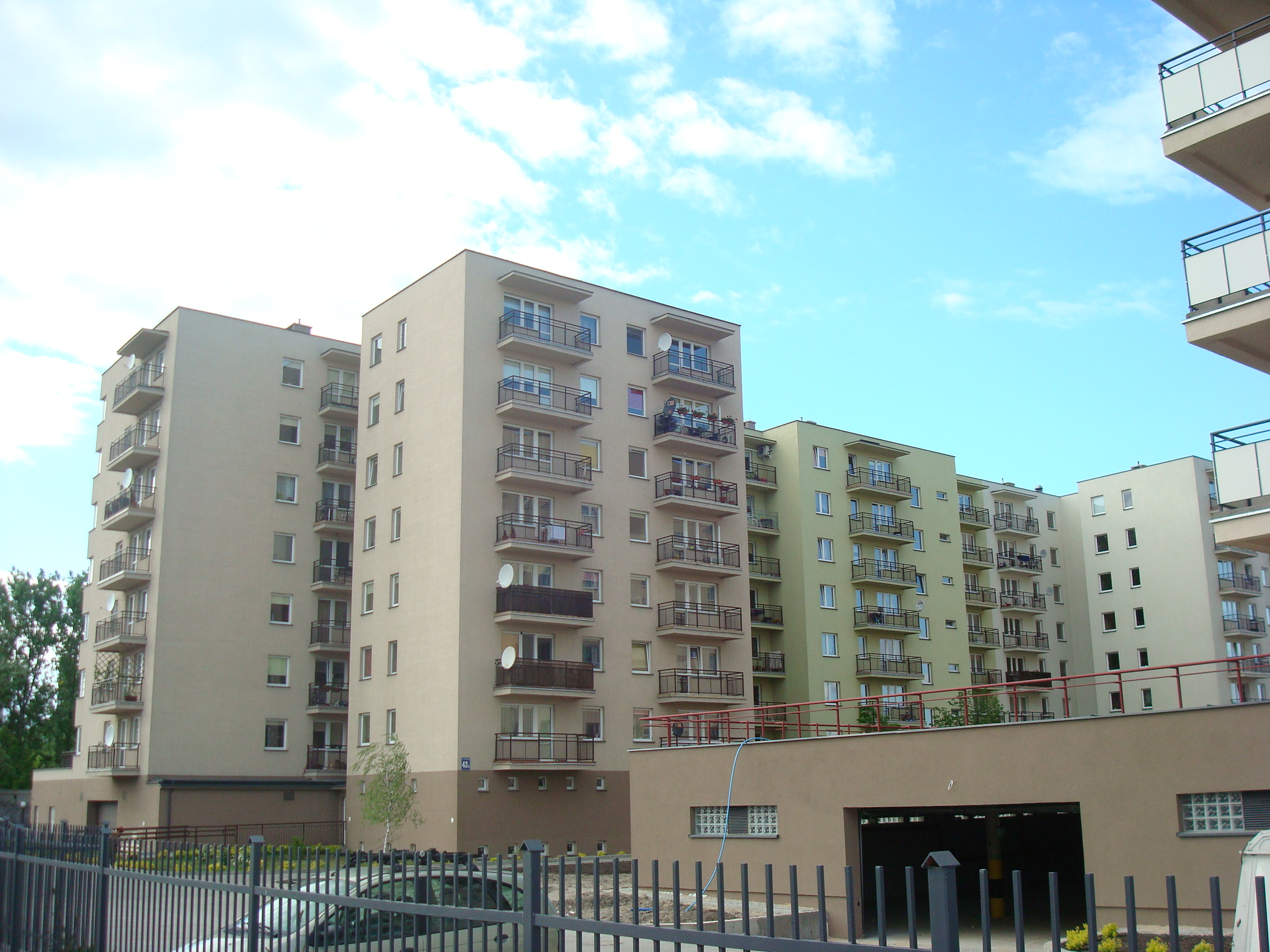 Housing estate "Rynkowa" in Siedlce